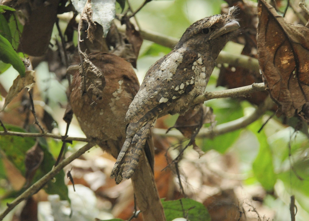 Srilankan frogmouth pair at Thattekadu, Kerala.